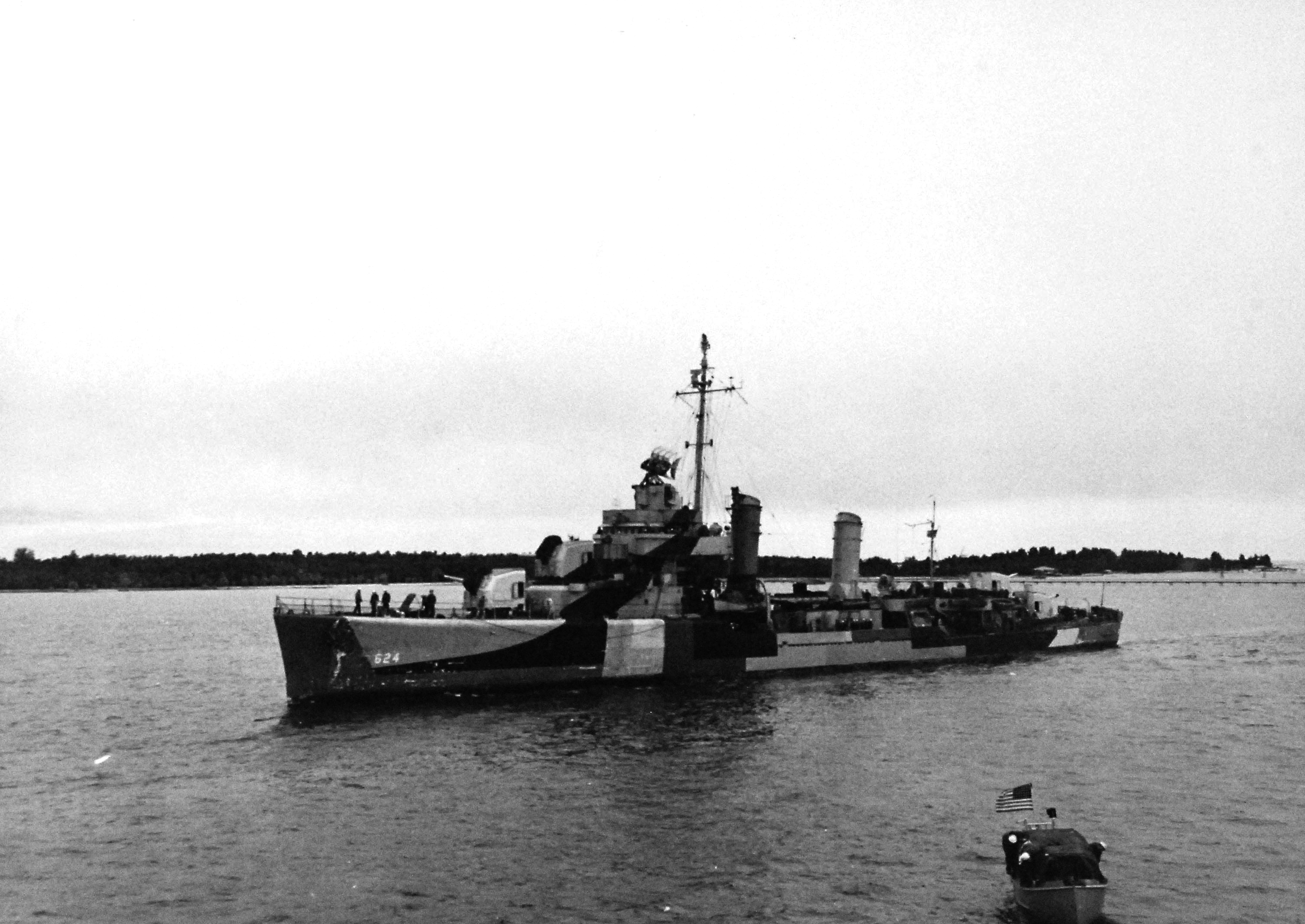 The U.S. Navy destroyer USS Baldwin (DD-624) in the Suez Canal, Egypt, on 9 February 1945. The photo was taken from the heavy cruiser USS Quincy (CA-71), which had President Franklin D. Roosevelt embarked. Baldwin's camouflage is Measure 32, Design 3D.